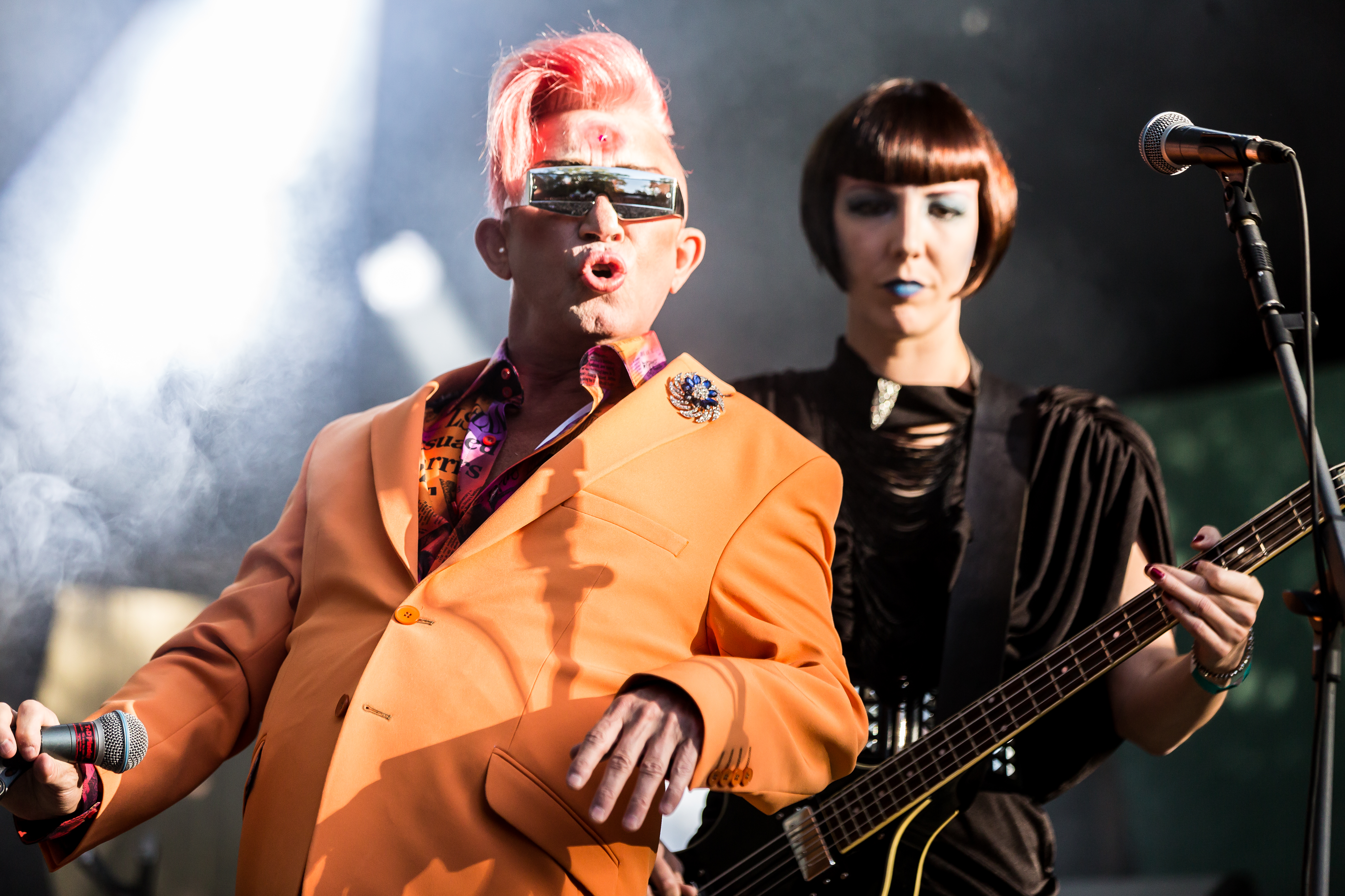 The English new wave and rock band Sigue Sigue Sputnik (Electronic) at the Nocturnal Culture Night 12 2017 in Deutzen/Germany.